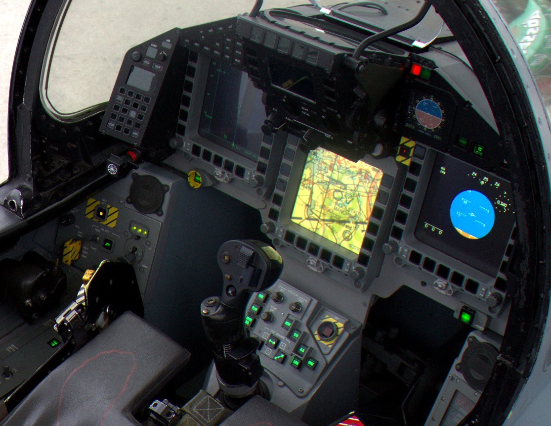 Eurofighter Typhoon cockpit, cut